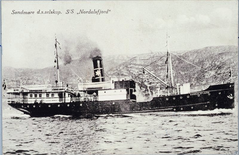 Norwegian steamship SS Nordalsfjord, built in 1914